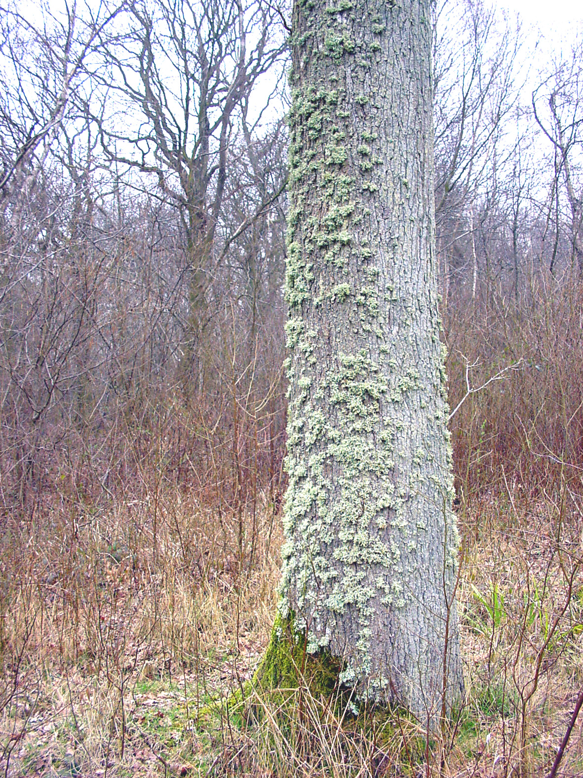 Lichens on a trunk in Forest of Rihoult-Clairmarais near Saint-Omer in the north of France.